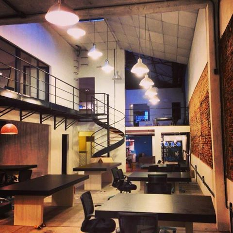 La Maquinita Co - Cowork Argentina.